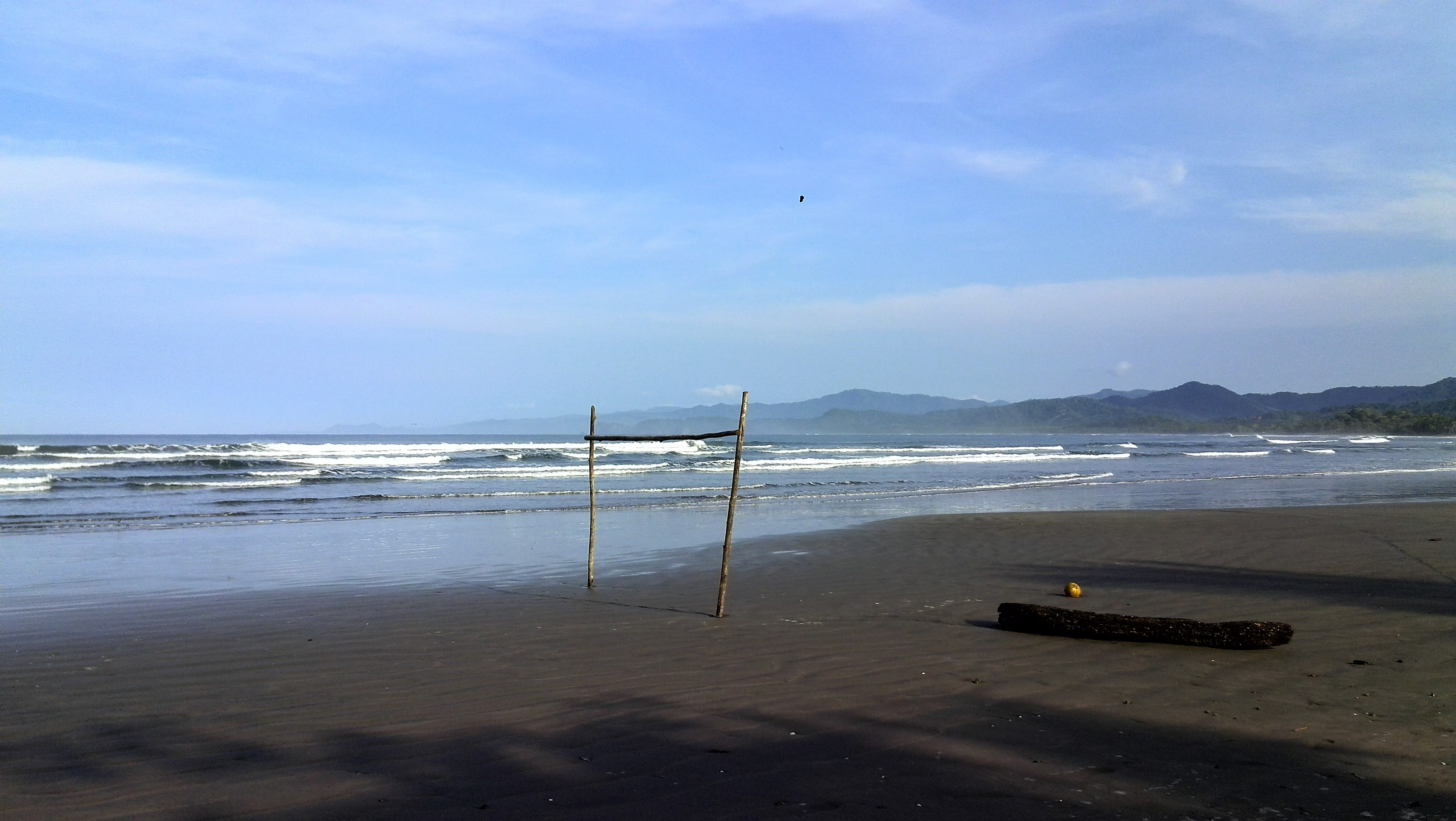 Playa Coyote beach picture